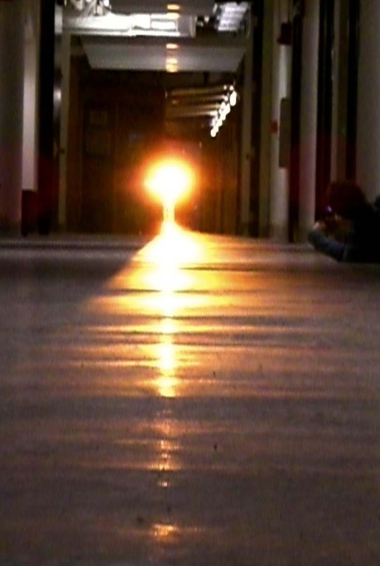 The sun shining all the way down the Infinite Corridor at the Massachusetts Institute of Technology (an event popularly called MIT henge) on 10 November 2006